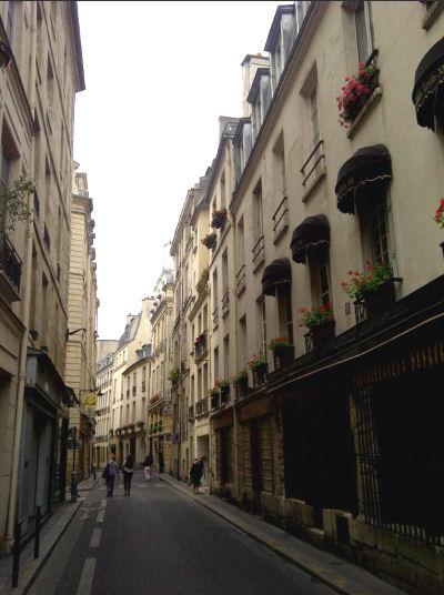 Rue_des_Grands_Augustins